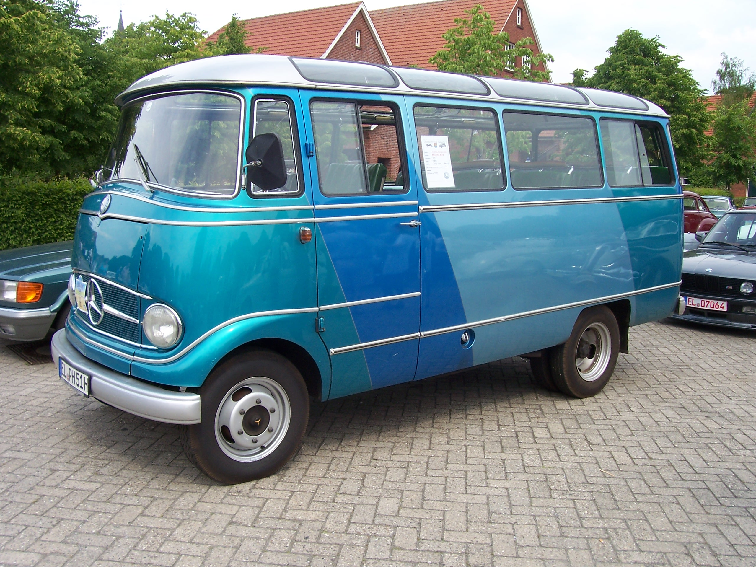 1966 Mercedes Benz O 319